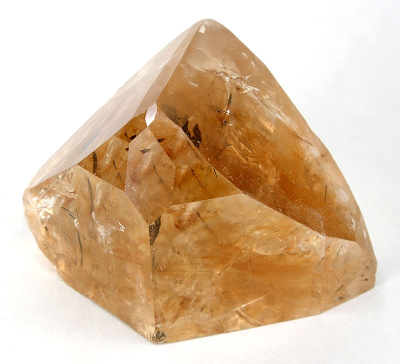 Topaz Locality: Wah Tu Wah Mine, Gao Li Gongshan, Wenshan, Yunnan Province, China Size: small cabinet, 7.2 x 5.0 x 4.5 cm Topaz with inclusions An oustanding pristine crystal with the deepest amber color in any topaz I have yet seen from here. It is exceptionally equant and symmetric, and gemmy and lustrous all over. It is complete all around. It is, in person, much more gemmy than it appaears and I would say it is 90% transparent in total. There are some VERY INTERESTING inclusions of a crystalline mineral species in side! they LOOK like brookite or hematite blades but are probably slender schorl or tourmaline, I would guess. NEVER SEEN !